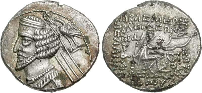 Coin of Phraates IV.